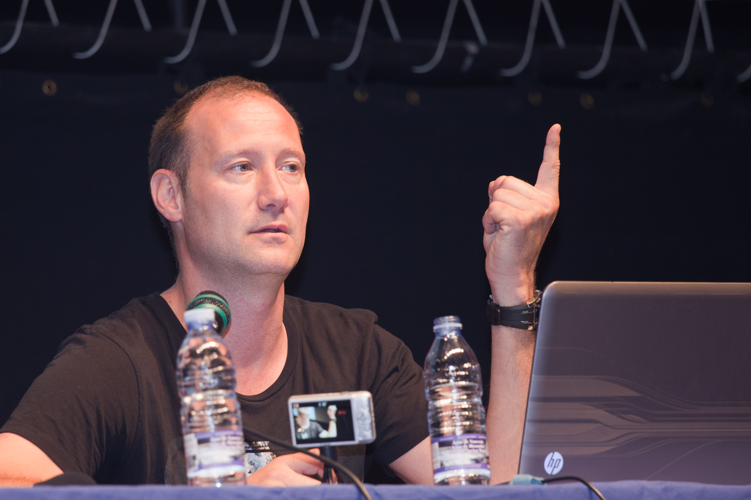 Pedro García Aguado, water polo player from Spain